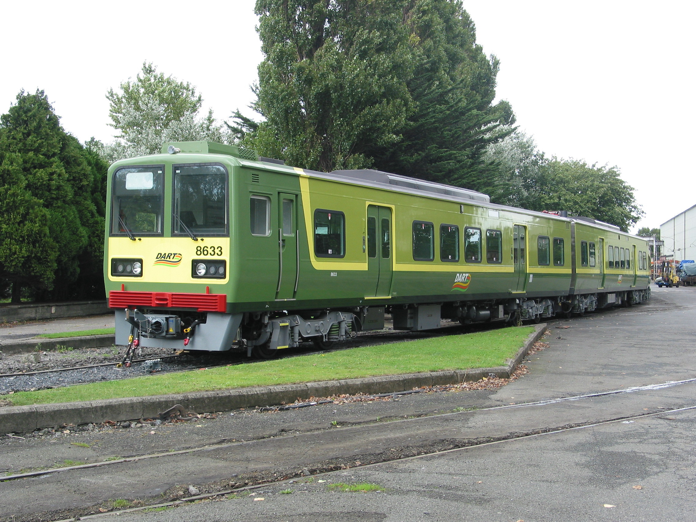 DART 8633 on the takeover